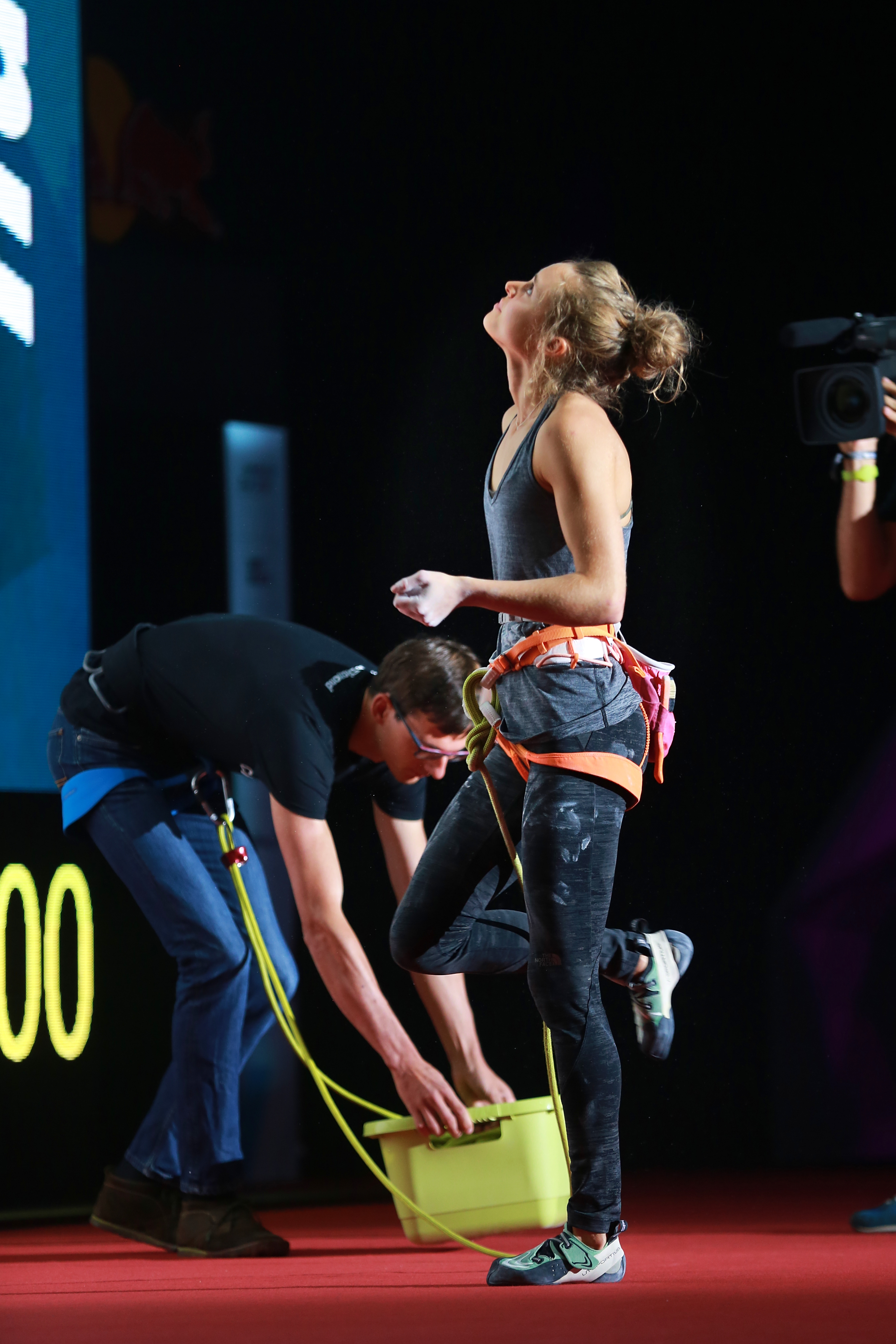 Climbing World Championships 2018 Lead Semi Hayes